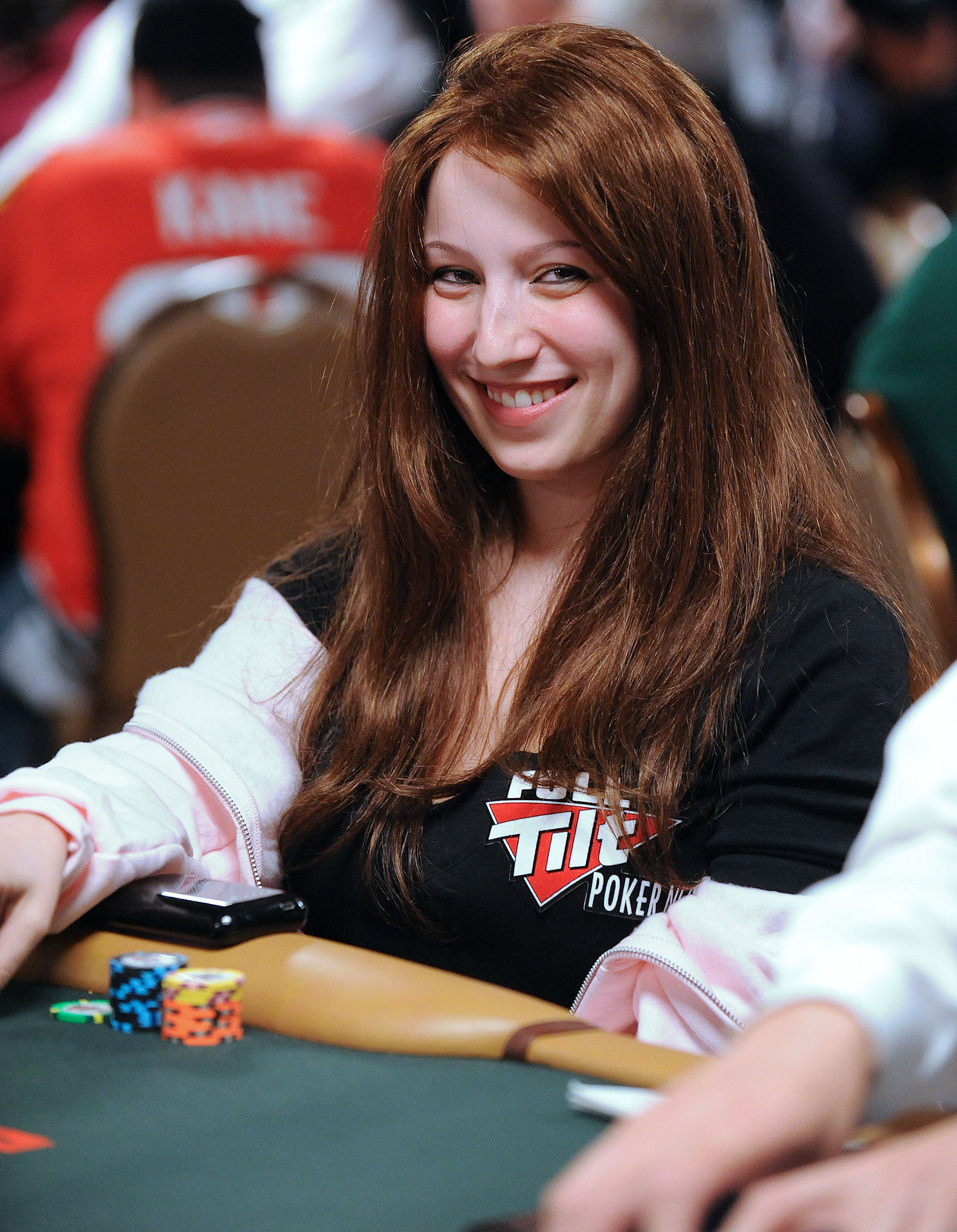 Melanie Weisner at the 2010 World Series of Poker main event (Day 1D)